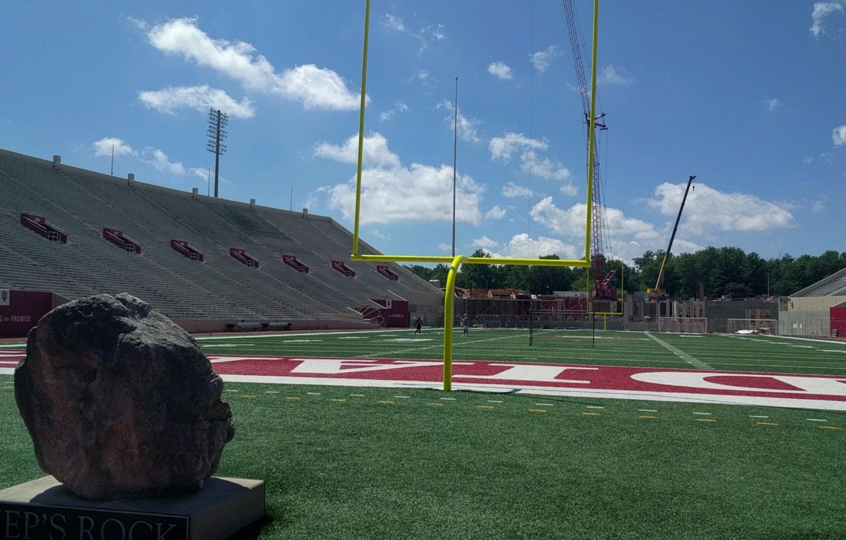 South Endzone - July 8, 2017